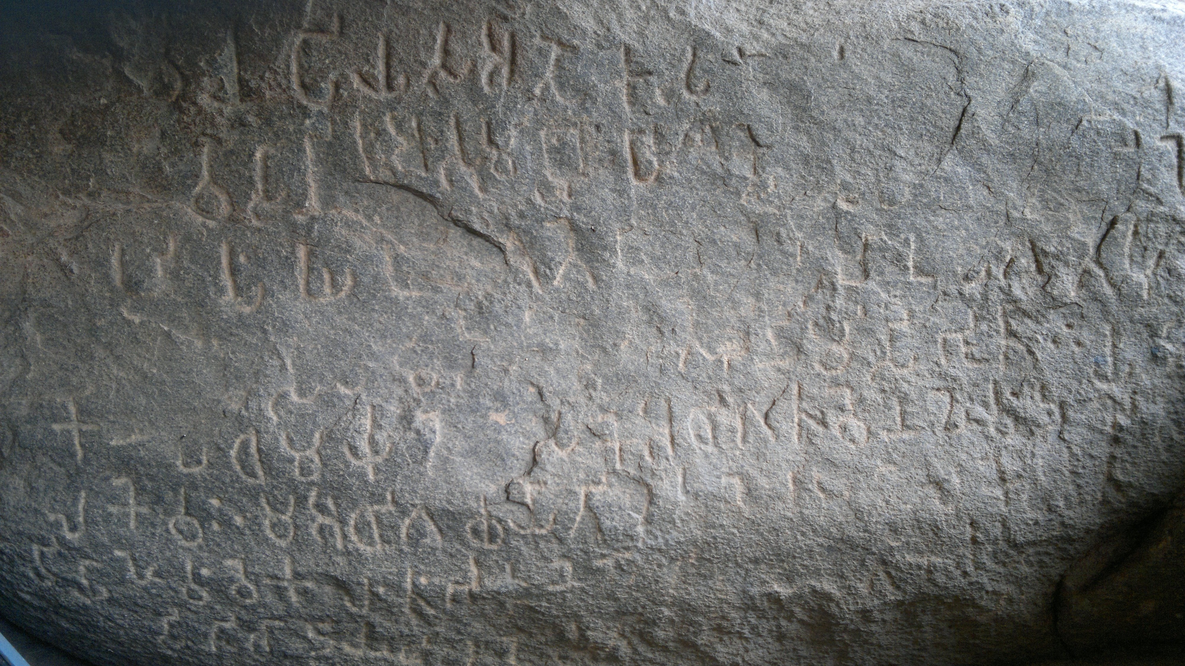 This is the Photograph of Ashoka's Edict at Maski, District Raichur, Karnataka State, India